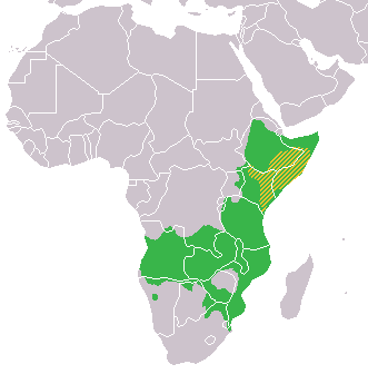 Derived from species maps.